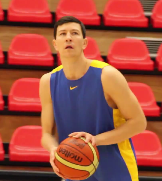 Picture of Vlado.